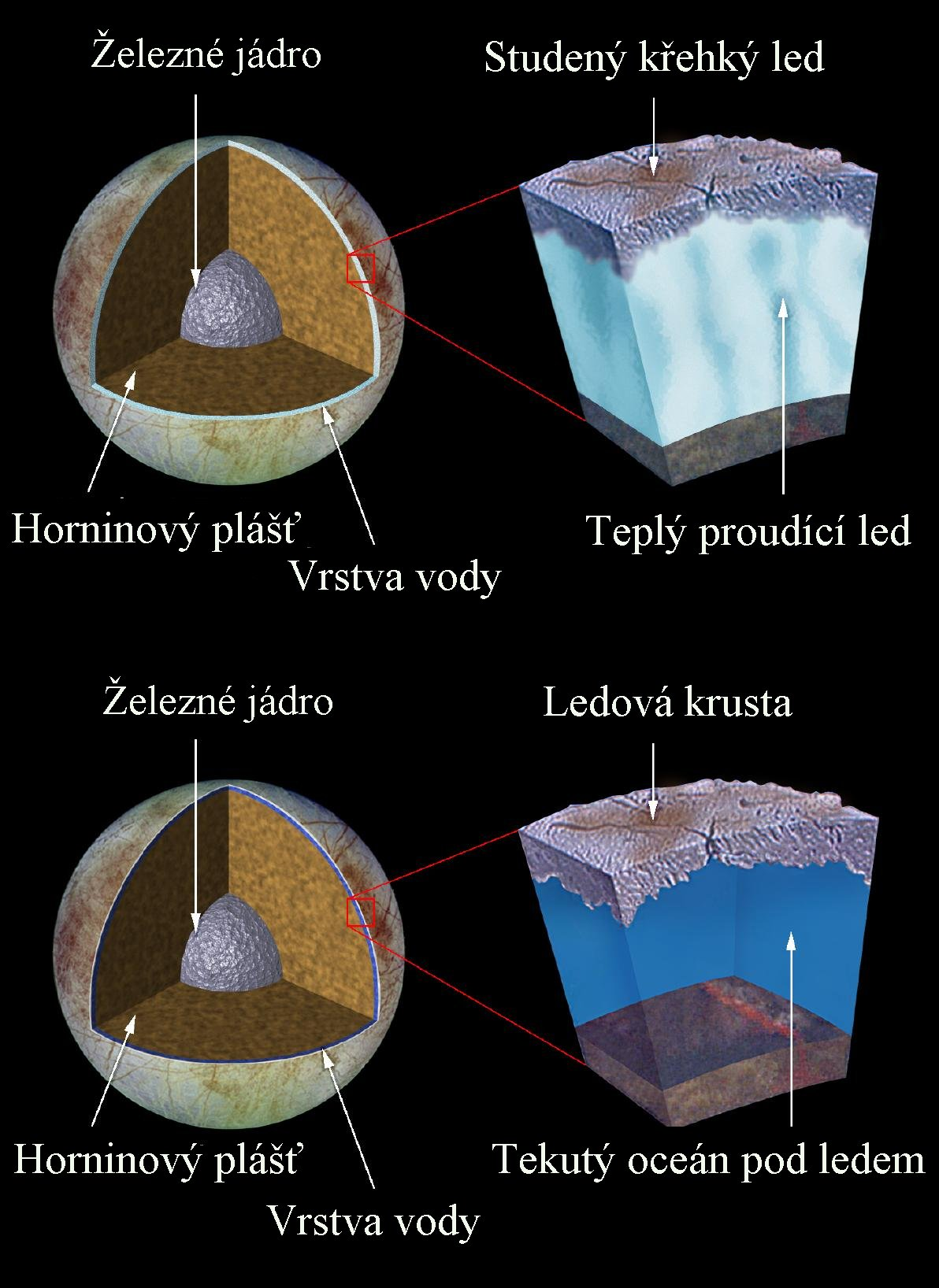 Model of Europa's subsurface structure. Original caption released with image: These artist's drawings depict two proposed models of the subsurface structure of the Jovian moon, Europa. Geologic features on the surface, imaged by the Solid State Imaging (SSI) system on NASA's Galileo spacecraft might be explained either by the existence of a warm, convecting ice layer, located several kilometers below a cold, brittle surface ice crust (top model), or by a layer of liquid water with a possible depth of more than 100 kilometers(bottom model). If a 100 kilometer (60 mile) deep ocean existed below a 15 kilometer (10 mile) thick Europan ice crust, it would be 10 times deeper than any ocean on Earth and would contain twice as much water as Earth's oceans and rivers combined. Unlike the Earth, magnesium sulfate might be a major salt component of Europa's water or ice, while the Earth's oceans are salty due to sodium chloride (common salt). While data from various instruments on the Galileo spacecraft indicate that an Europan ocean might exist, no conclusive proof has yet been found. To date Earth is the only known place in the solar system where large masses of liquid water are located close to a solid surface. Other sources are especially interesting since water is a key ingredient for the development of life as we know it.